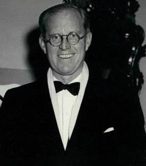 Photo of Joseph and Rose Kennedy as they arrive for dinner at the Colony restaurant in New York. At the time, Joseph Kennedy was the United States Ambassador to Great Britain.